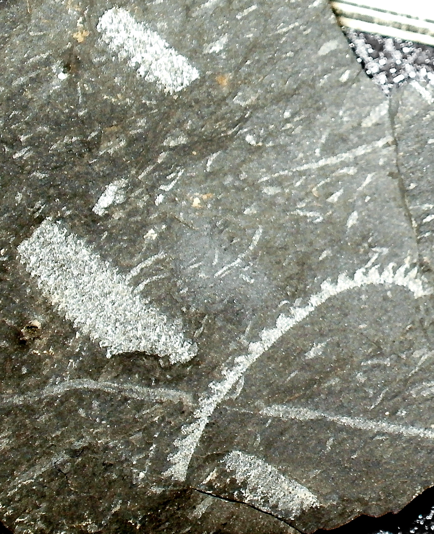 fossil Spirograptus spiralis